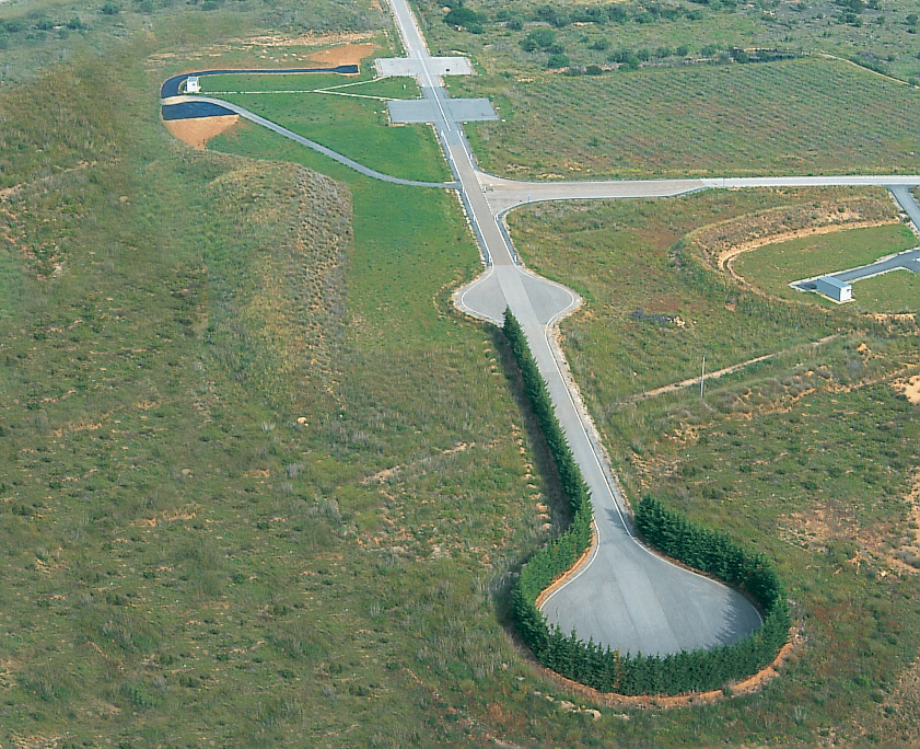 German outdoor noise measurement track of Applus + IDIADA